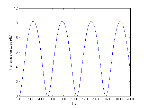 Transmission Loss Duct Acoustics - Simple Example Matlab Result